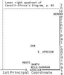 description, Principal-component map, partial, redrawn from Cavalli-Sforza, History and Geography of Human Genes, p. 82 author, Patrick Edwin Moran source see above. One quarter of the original chart was re-drawn